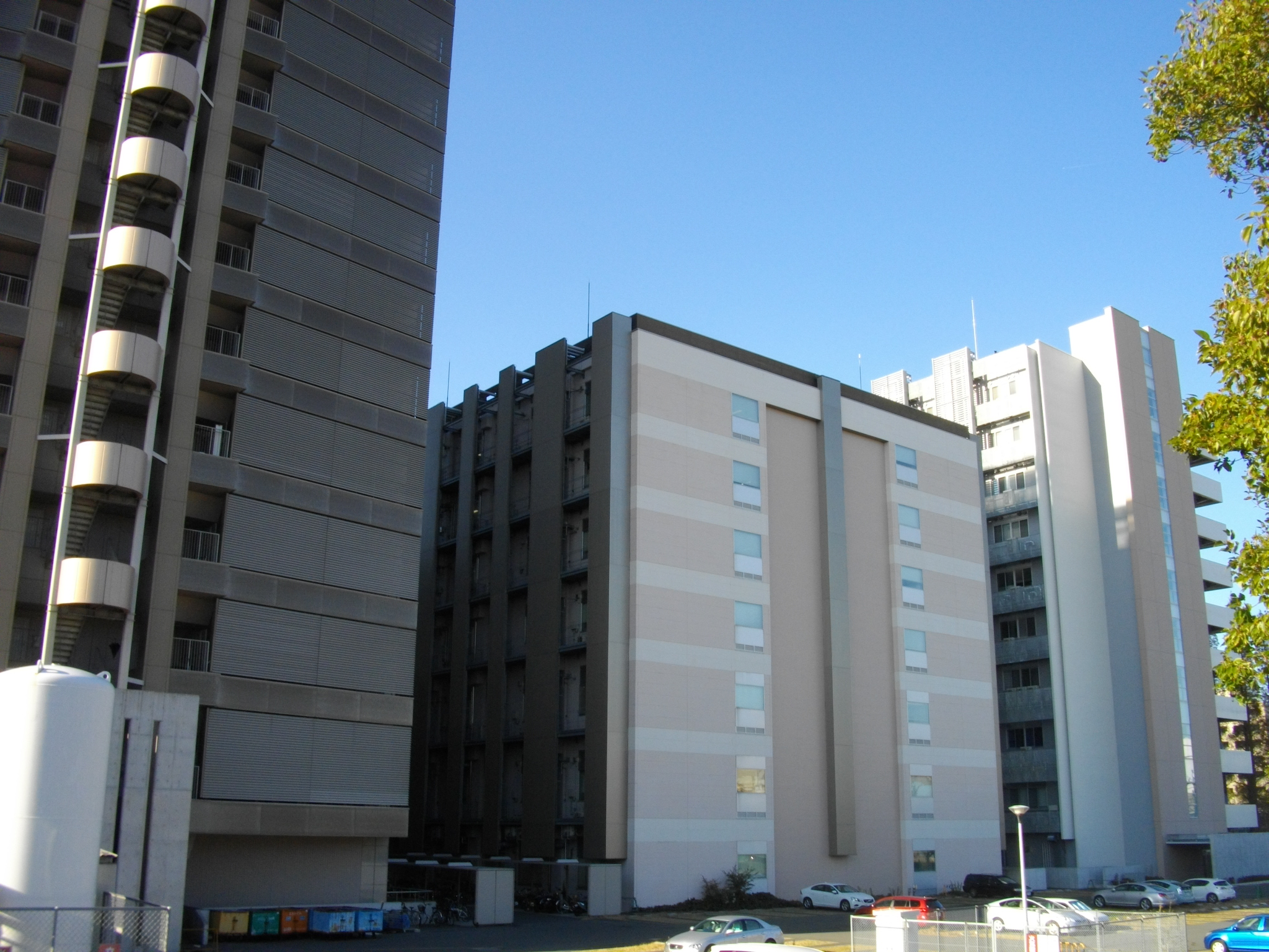 Nagoya University Tsurumai Campus